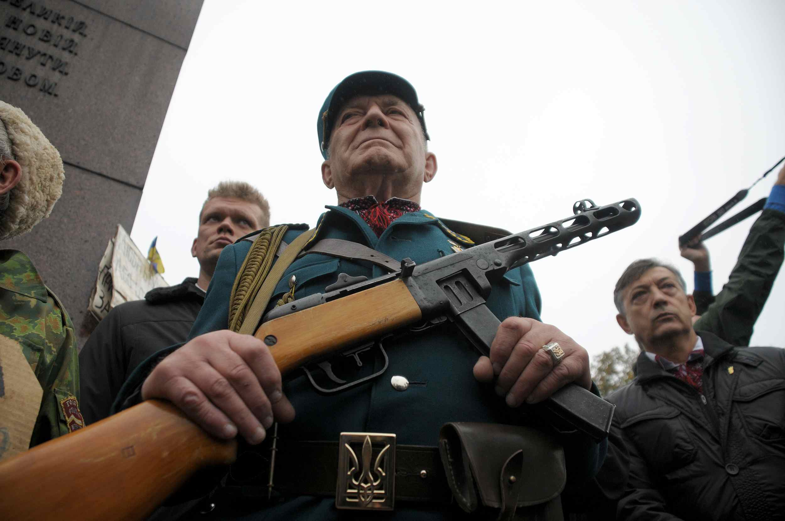 2012 UPA March in Kiev, 14 October 2012.